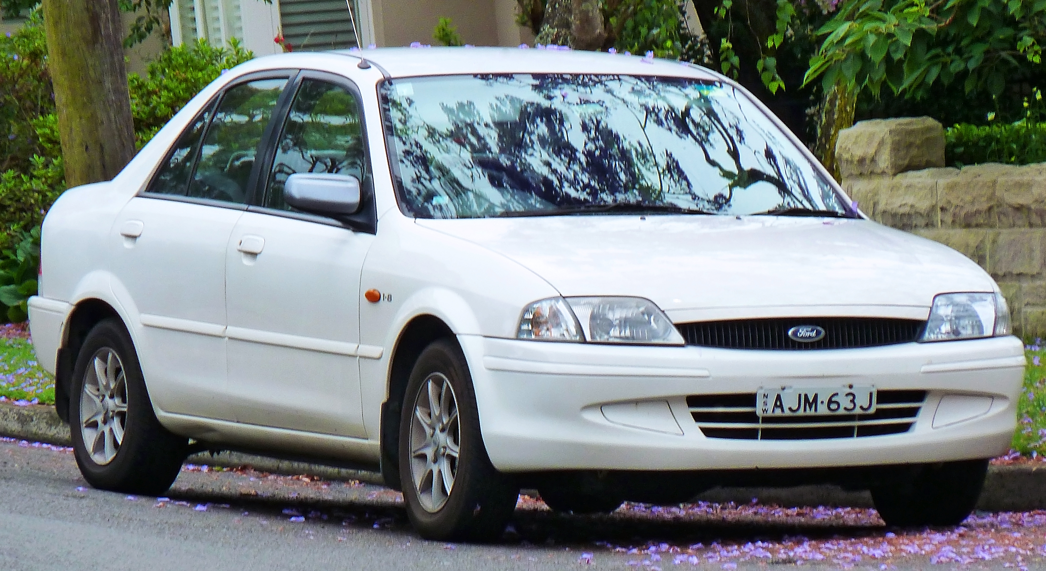 1999–2001 Ford Laser (KN) GLXi sedan. Photographed in Lindfield, New South Wales, Australia.